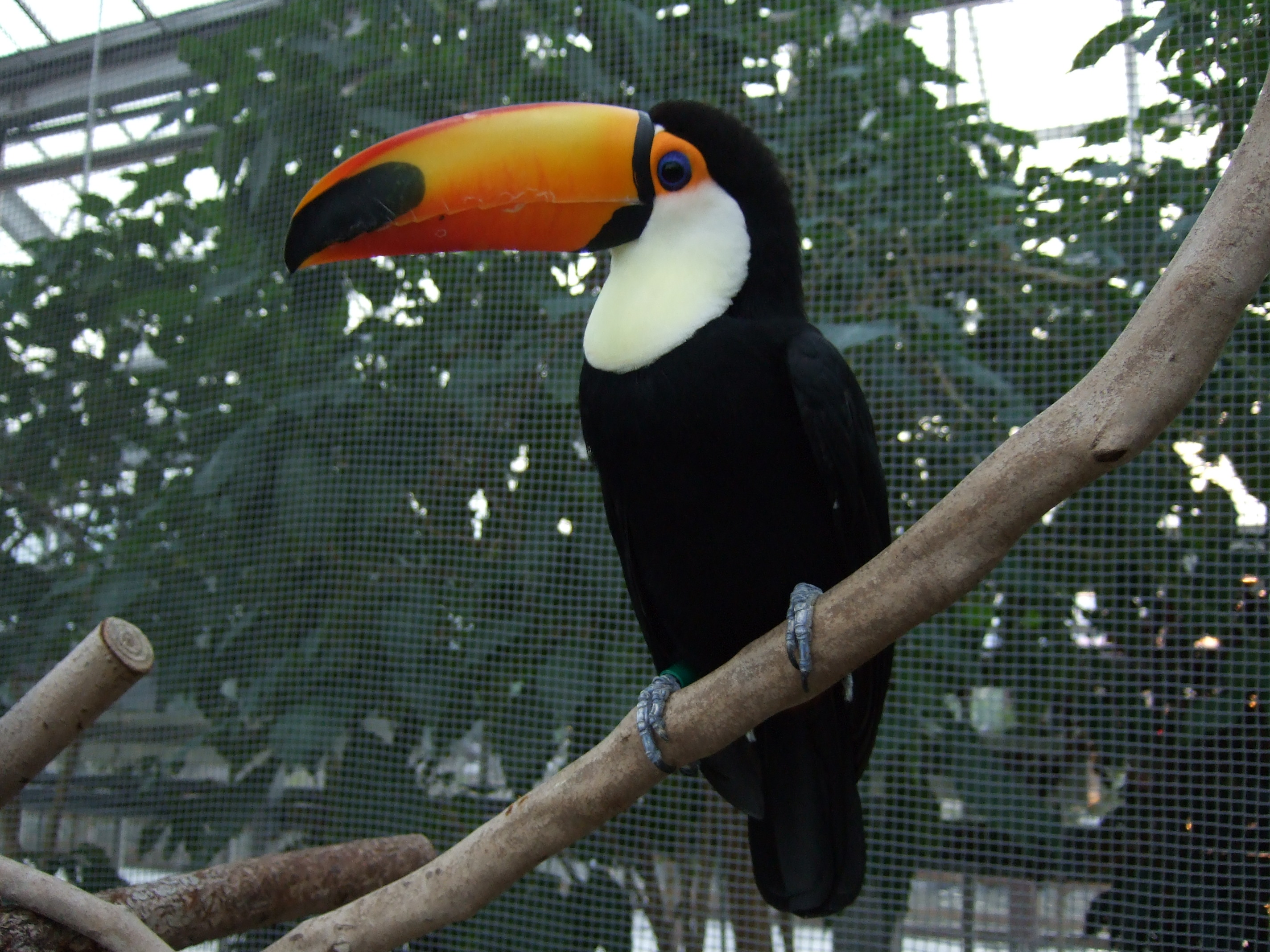 A Toco Toucan at Kobe Kachoen, Japan.